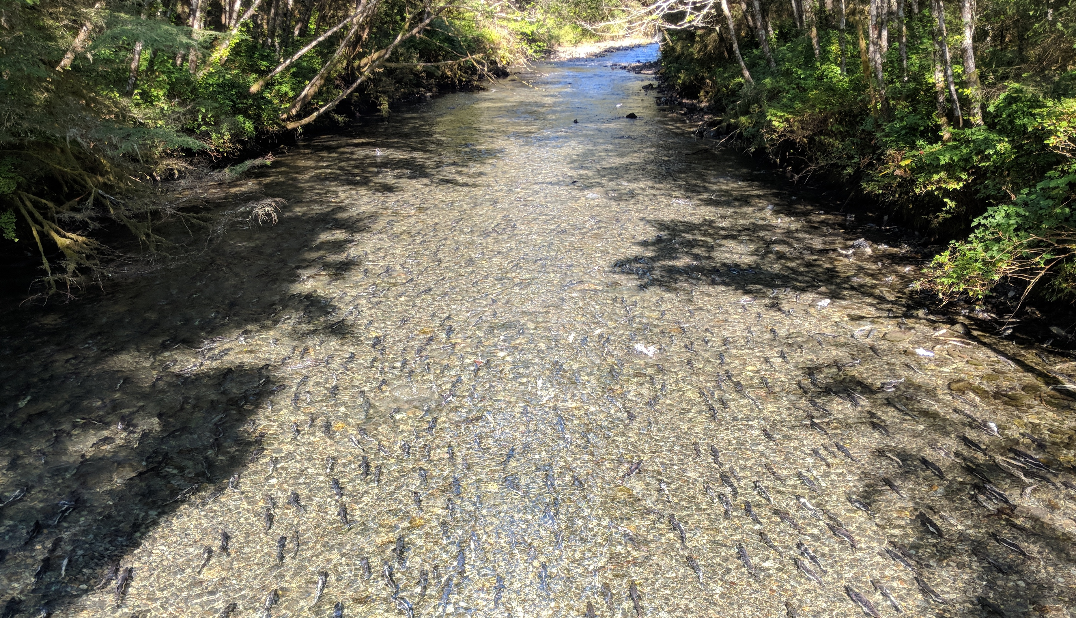 Pink salmon ((Oncorhynchus gorbuscha) migrating up Indian River in the Sitka National Historical Park on September 6, 2018